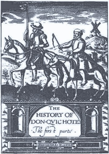 Don Quixote - Cover illustration for London edition